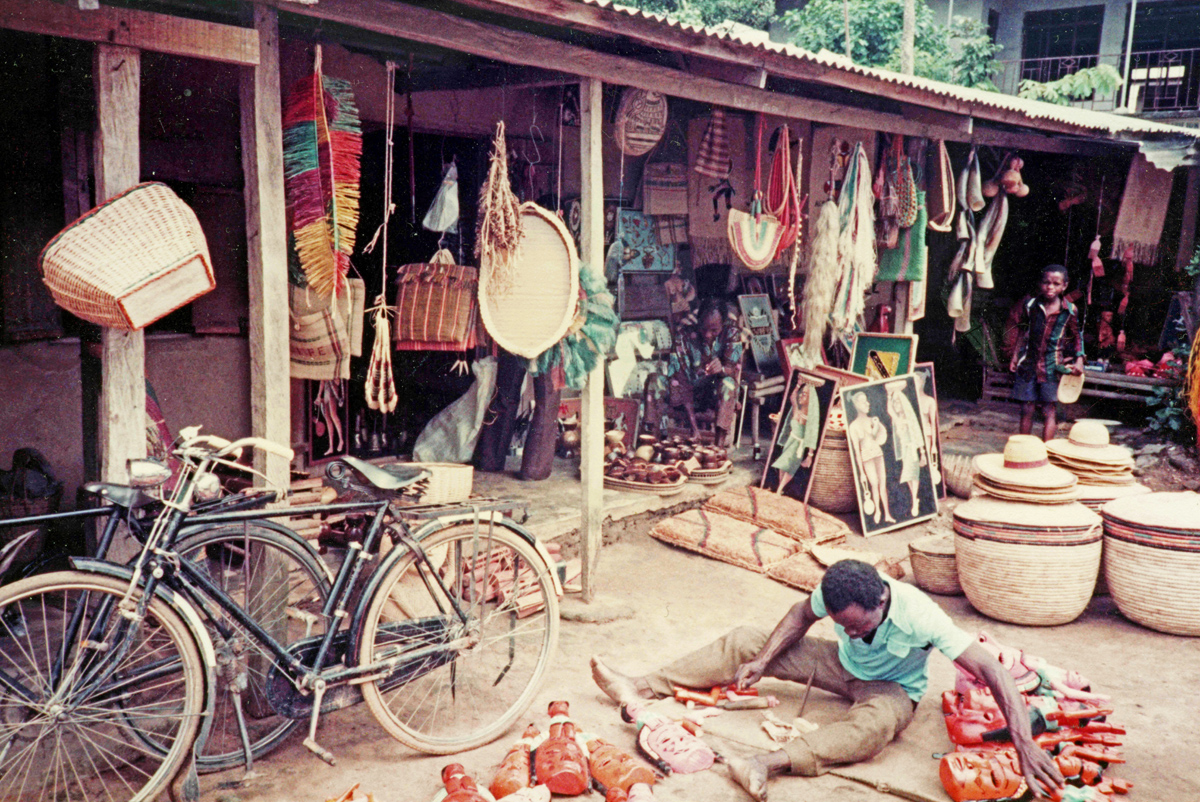 Ikot Ekpene, SE Nigeria, Craft Market in November 1981 showing raffia work and wood carving